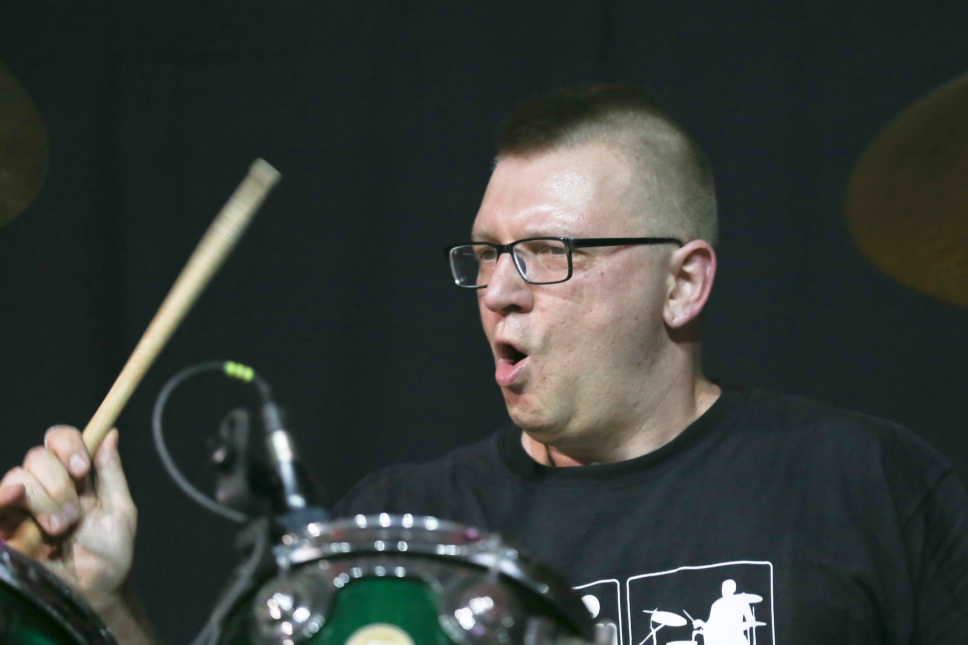 Przystanek Woodstock in 2016.